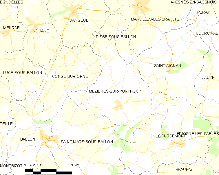 Map of French municipality